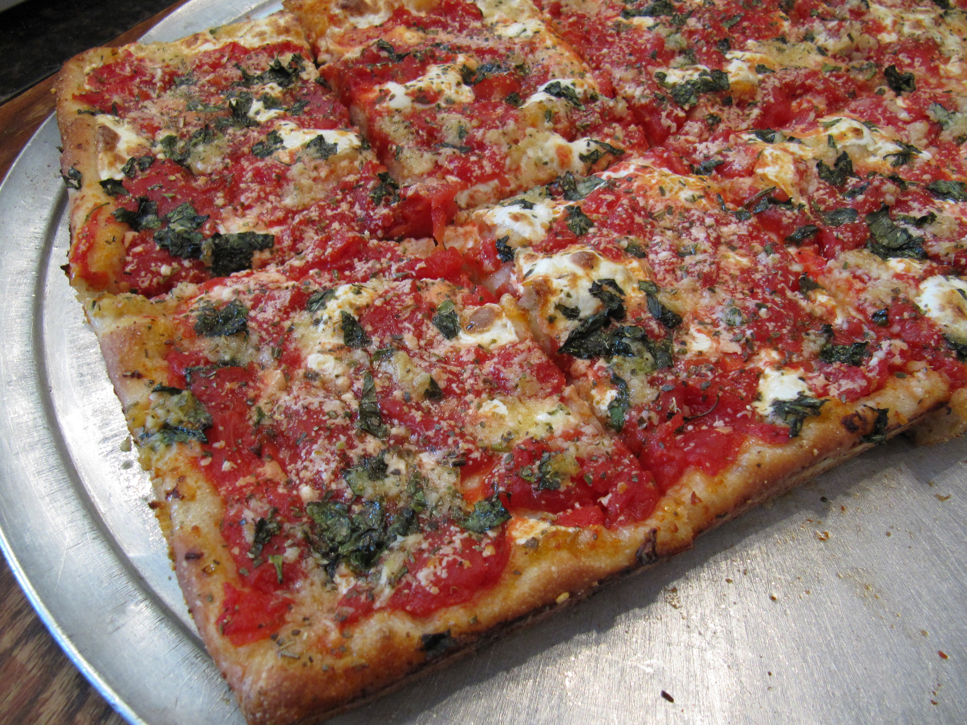 Grandma pizza at Louie's Pizzeria